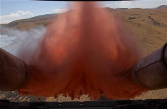 MAFFS-equipped C-130 from the 302d Airlift Wing makes a fire retardant drop, as seen out the aft cargo door.